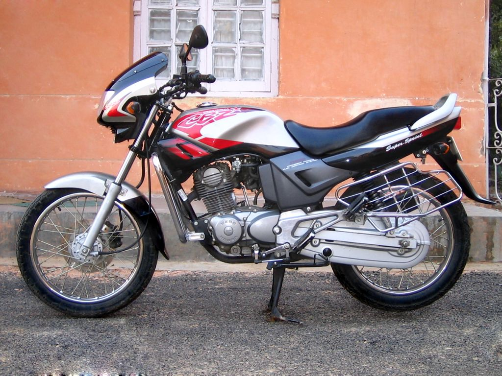 Hero Honda CBZ - September 2004 model Picture taken on 6 September 2007 Please post me a link to the page if you plan to use it. I would love to see what you come up with.